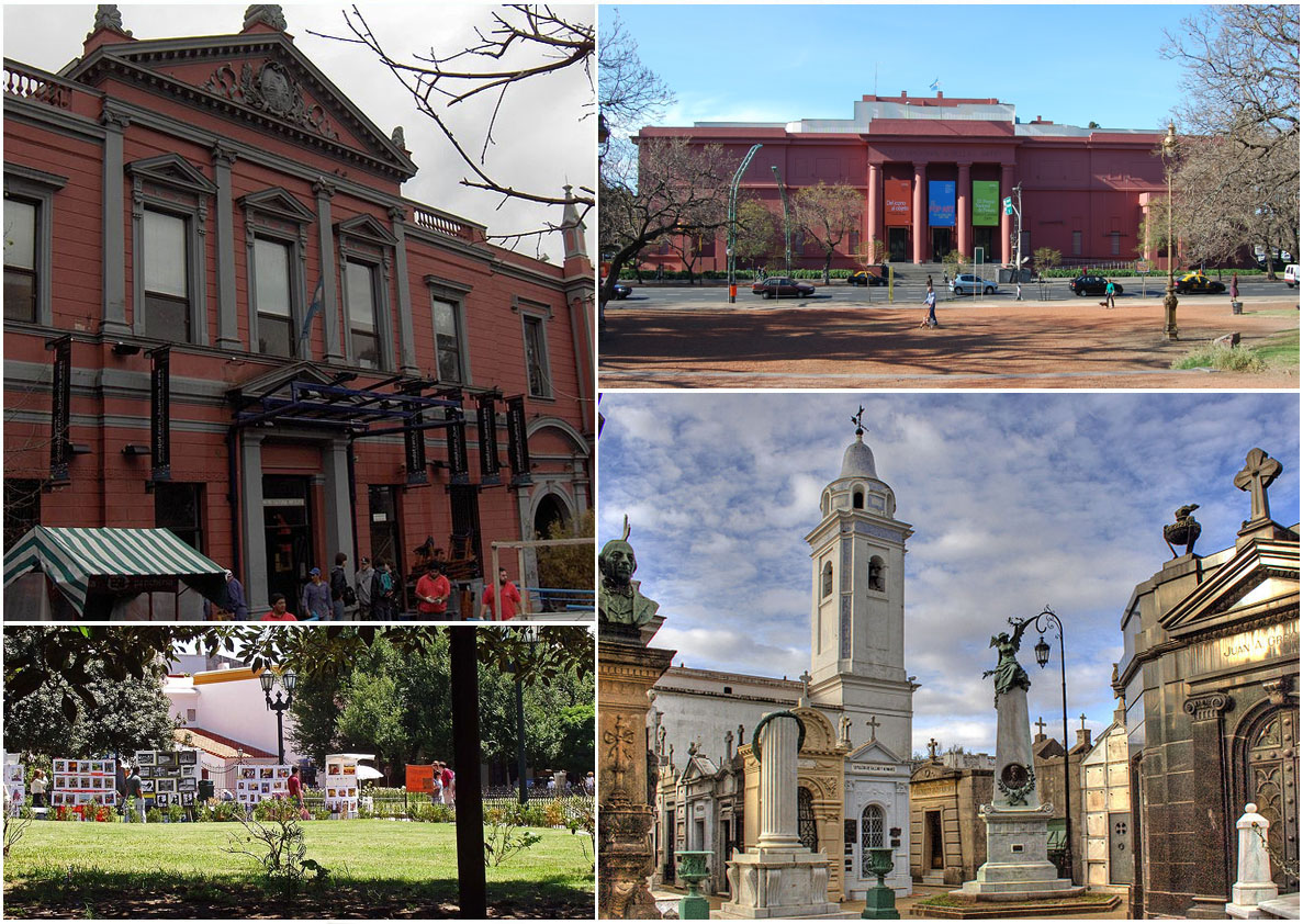 Photo montage of the Buenos Aires district of Recoleta